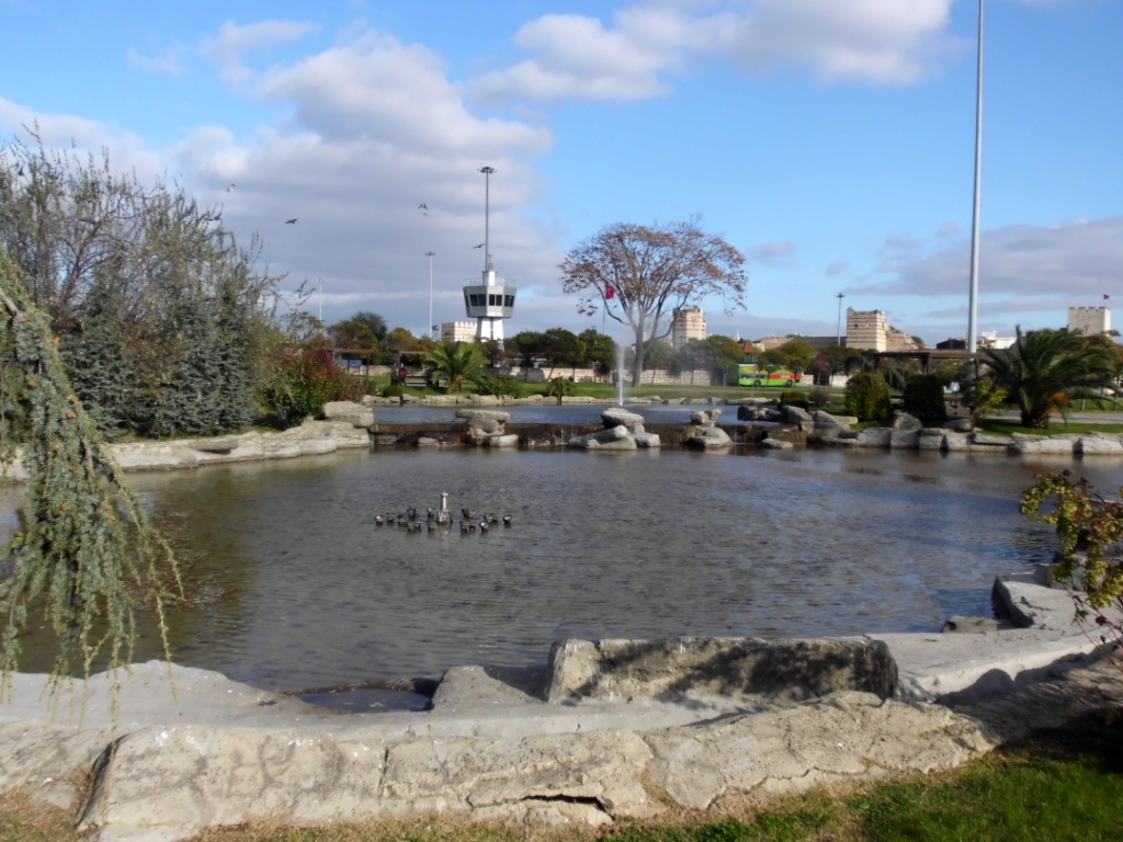 topkapı7